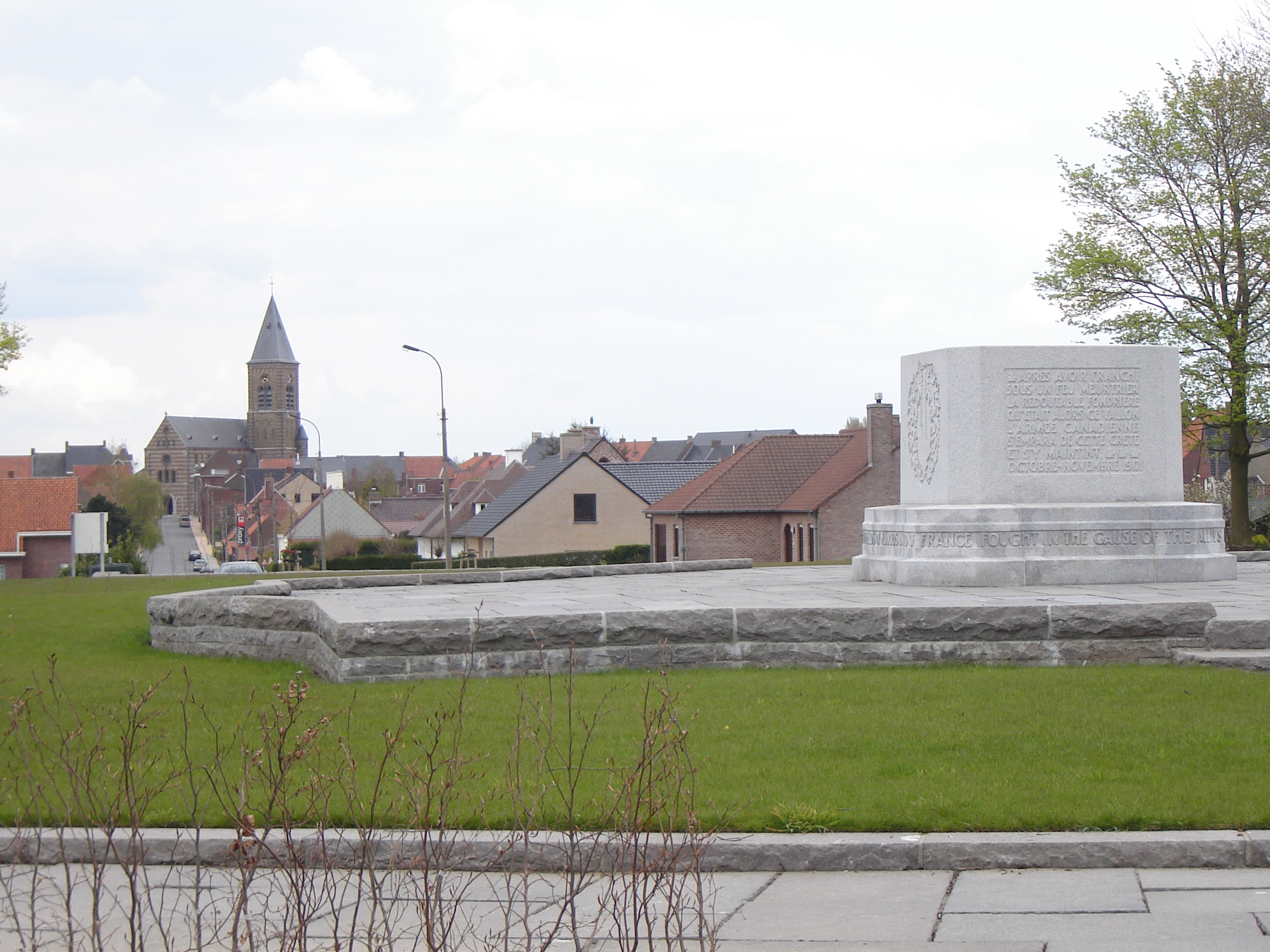 Crest Farm Canadian Memorial in Passendale on the site captured by the 72nd Battalion (Seaforths) Canadian Expeditionary Force (CEF). The town centre is in the background. Passendale, Zonnebeke, West Flanders, Belgium